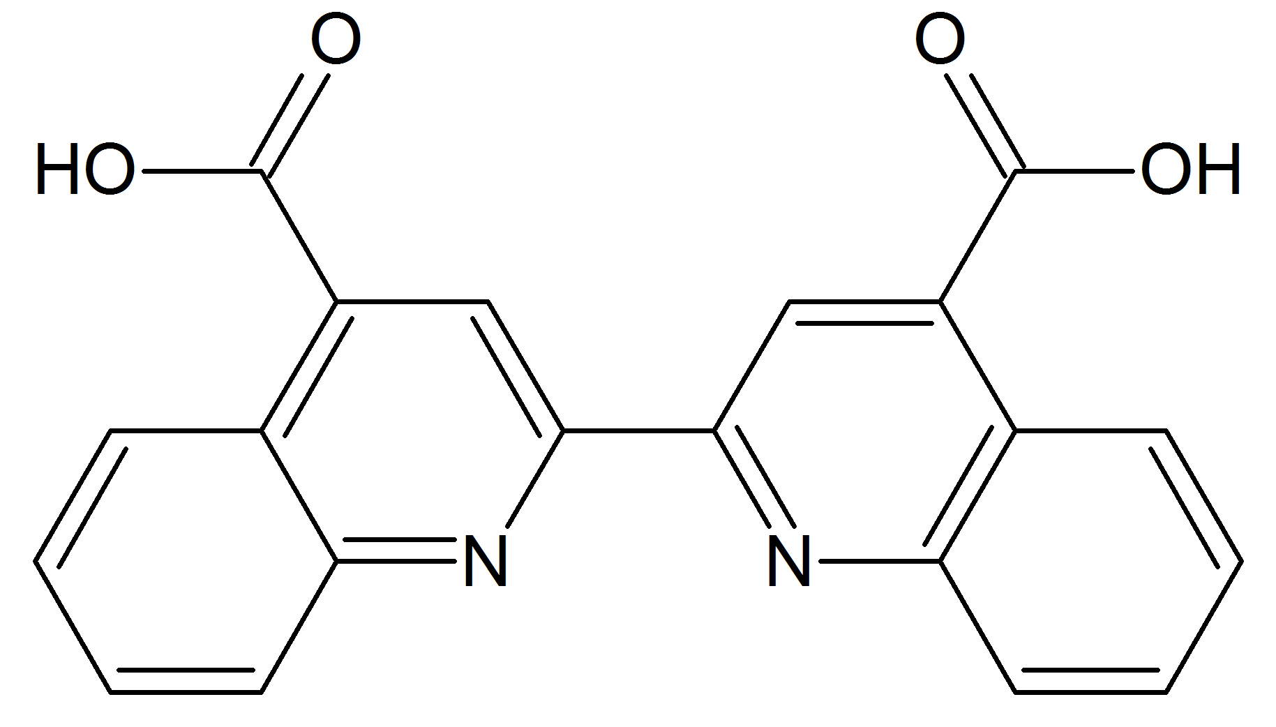 Structure of bicinchoninic acid